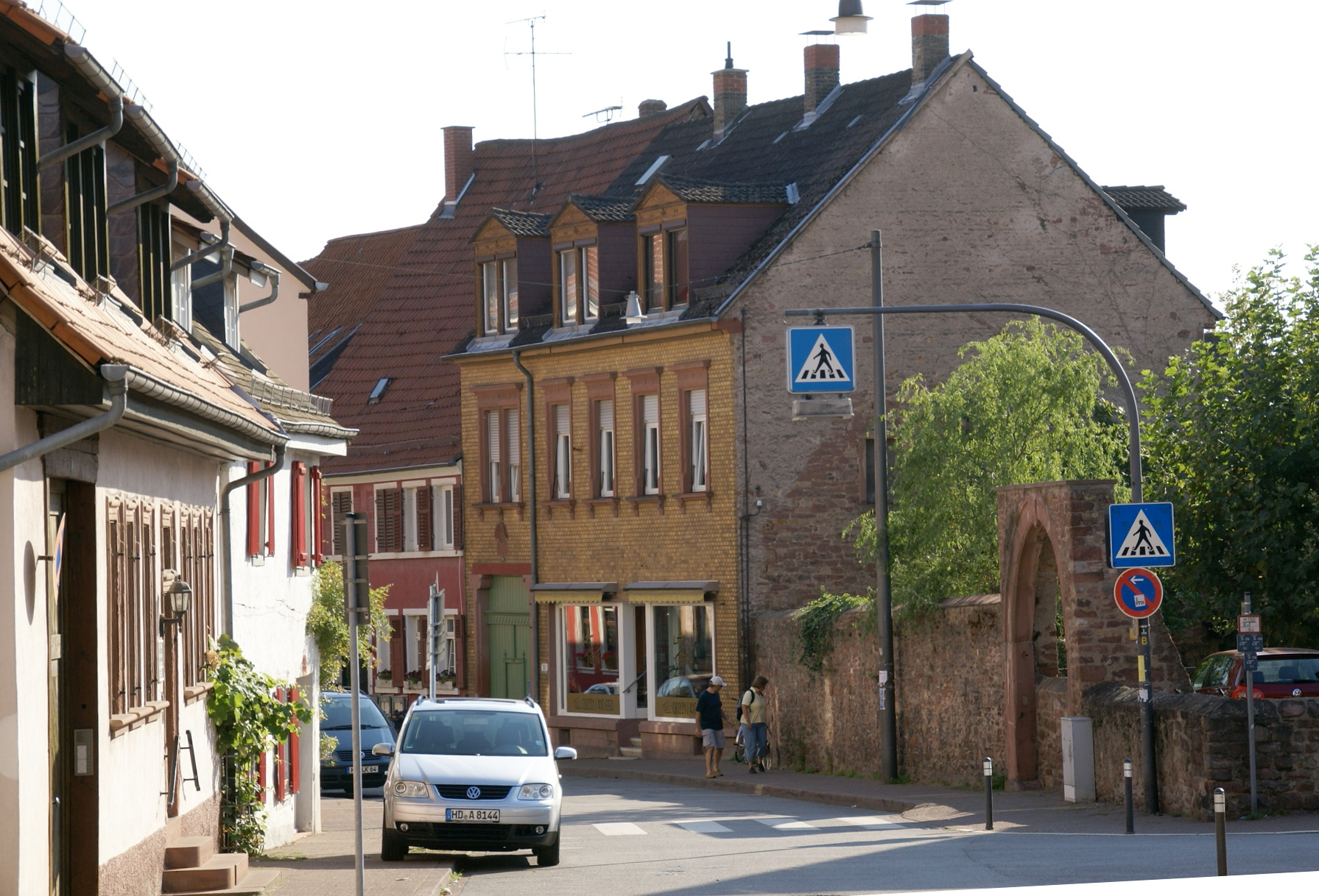 Mühltal Street in Heidelberg-Handschuhsheim Germany